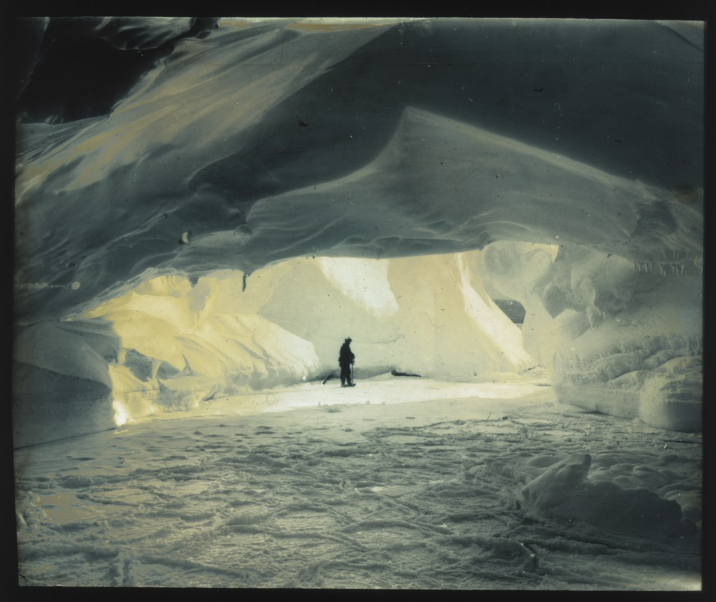 On the frozen sea in a cavern eaten out by the waves under the coastal ice-cliffs, Adelie Land [Australasian Antarctic Expedition, 1911-1914].